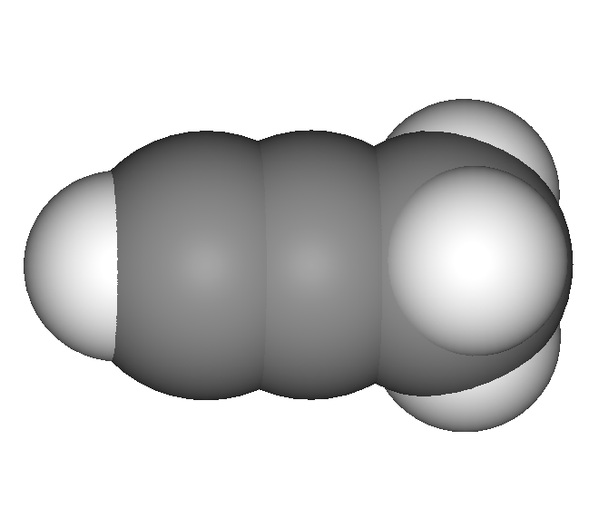 chemical structure of propyne